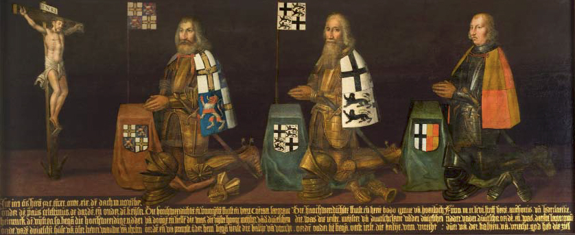 Crucifixion and the first three land commanders of the Bailiwick of Utrecht. (ca.1576-1580). The 1st panel in a series depicting all the commanders of the order, held in the Duitse huis, Utrecht